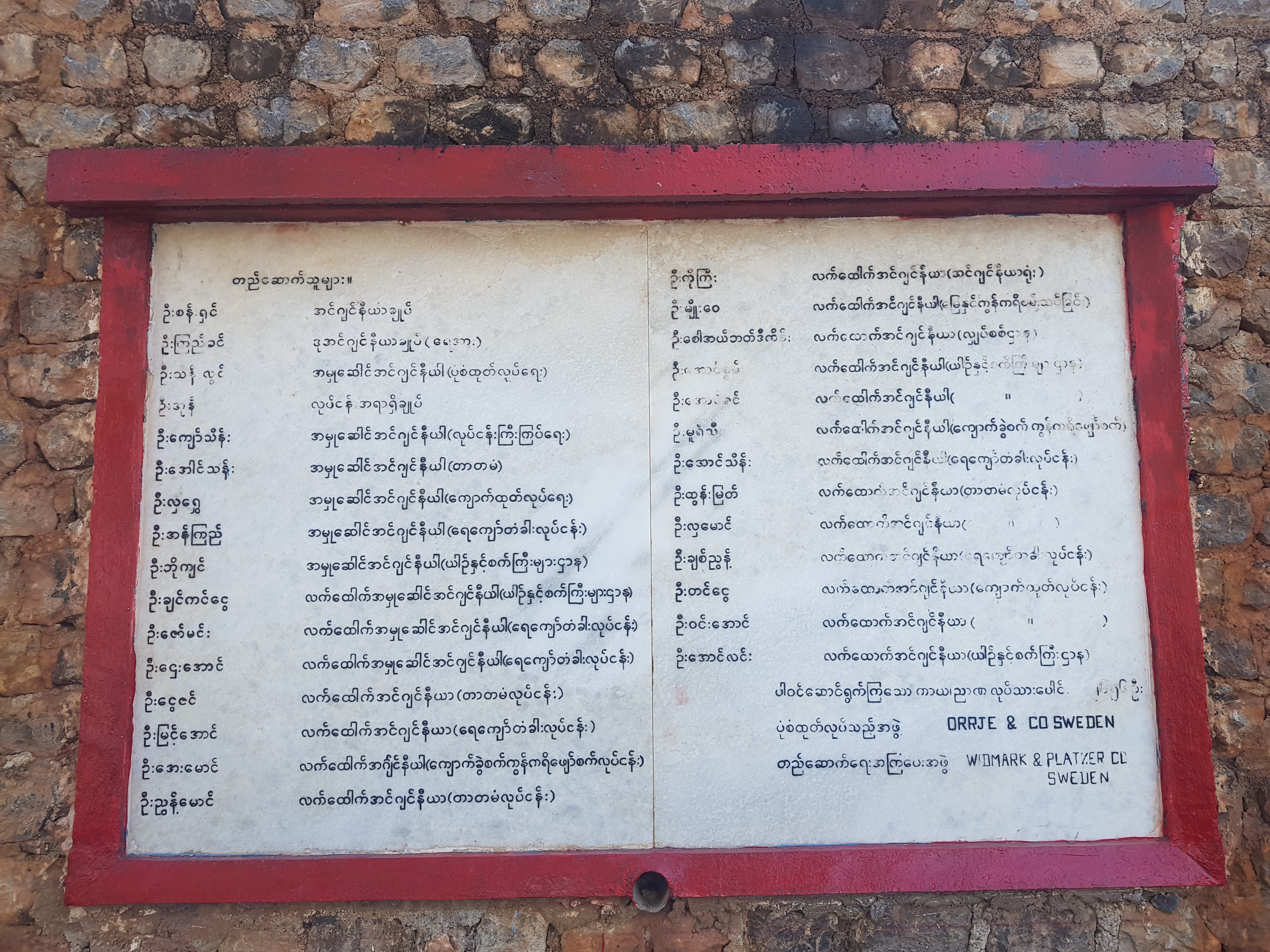 The Archive of participants.